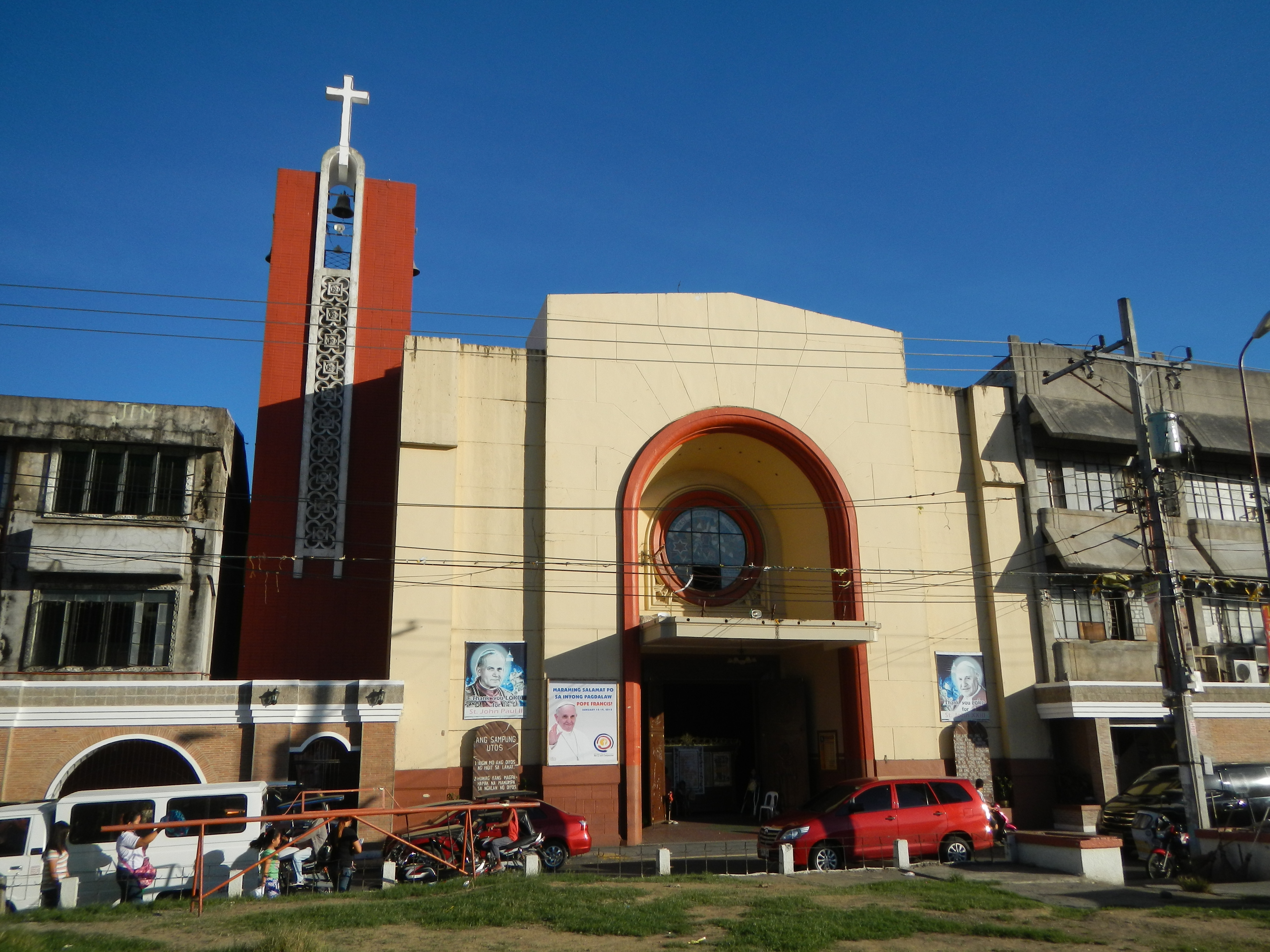 Saint Nicholas of Tolentino Cathedral (Cabanatuan City), List of cathedrals in the Philippines Roman Catholic Diocese of Cabanatuan (Lat: Dioecesis Cabanatuanensis), Cabanatuan City, Nueva Ecija.